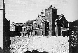 Office of the Prime Minister of Manchukuo